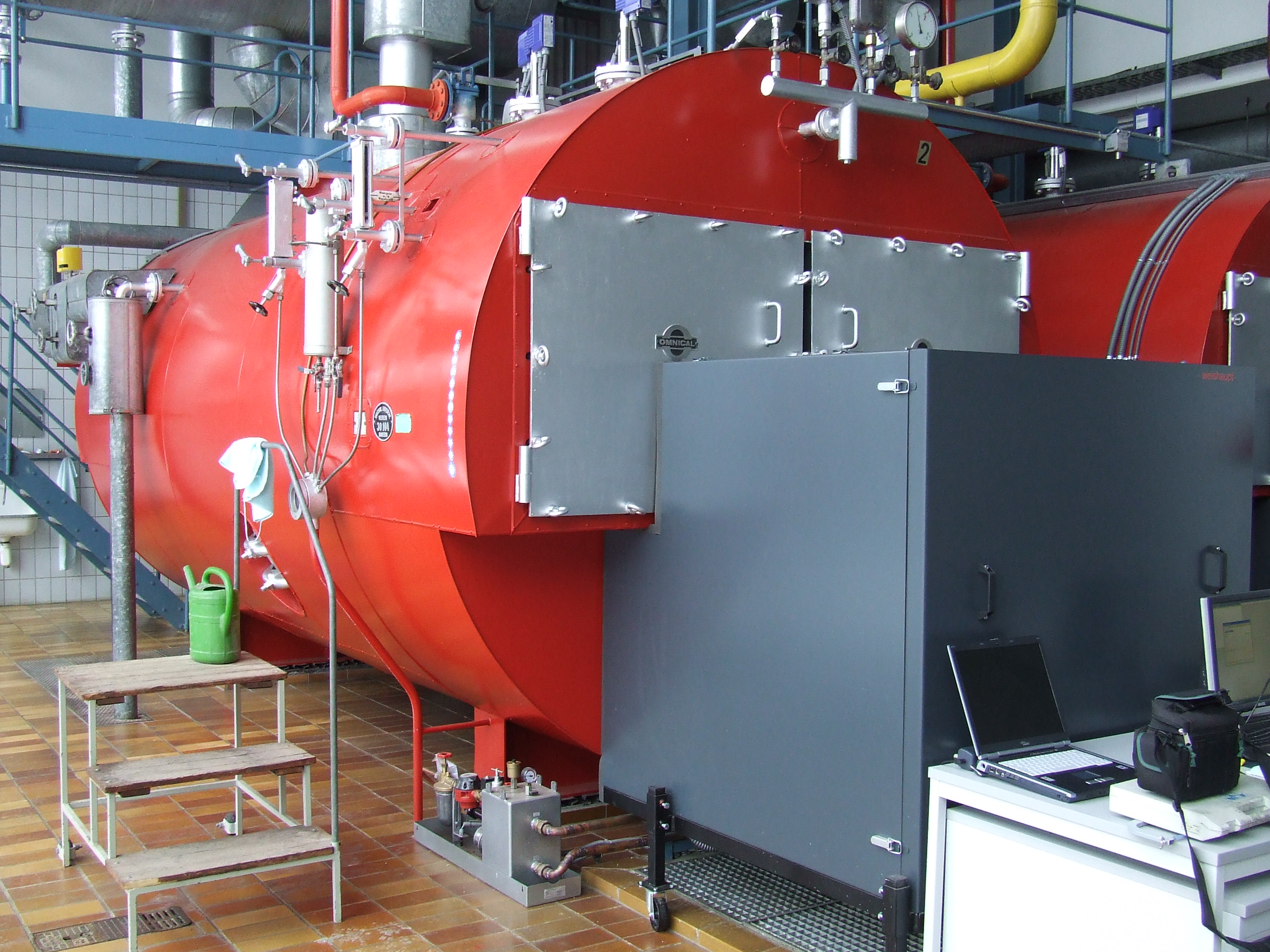 Boiler of the destrict heating station of the bavarian state bath Bad Steben, repainted with muffler above the burner due the modernization and expansion of the heating system.